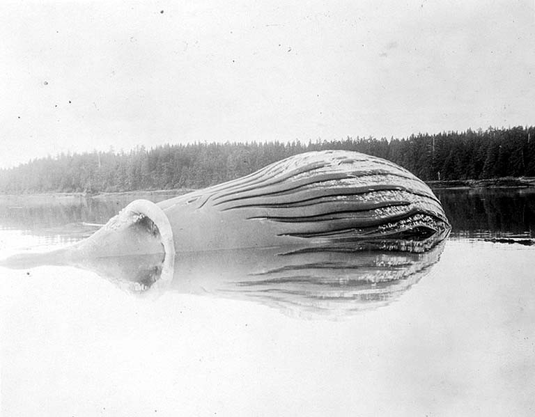 From John Cobb field notebook: At whale at the mooring. Aug. 25, 1910 . On verso of image: Alaska-whaling, Tyee Whaling Station Subjects (LCTGM): Whales--Alaska--Tyee Subjects (LCSH): Tyee Company; Whaling--Alaska--Tyee; Dead animals--Alaska--Tyee